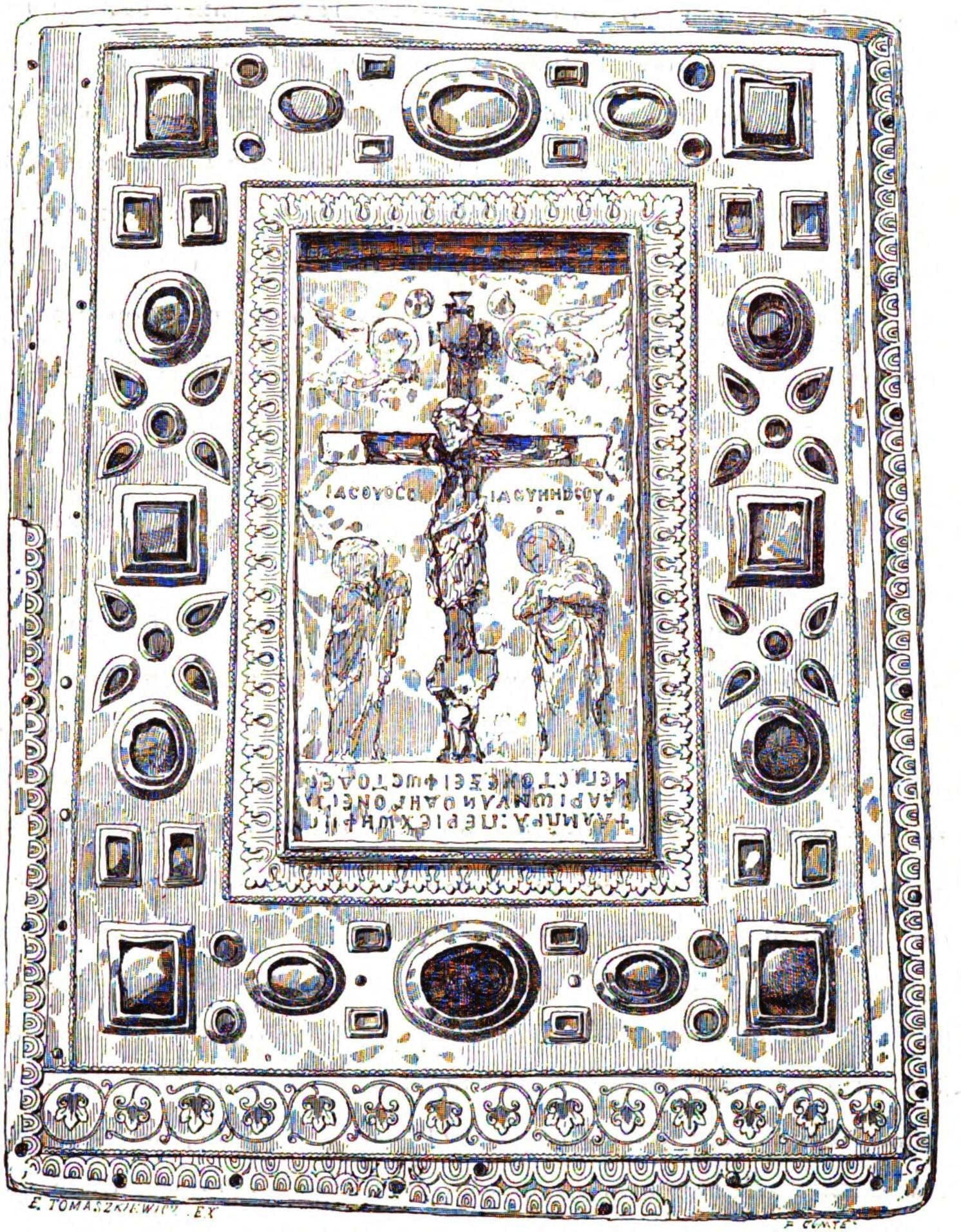 The so-called Shaliani icon, a Byzantine repoussé icon, preserved in the church of Sts. Quiricus and Julietta ("Lagurka") in Svaneti, Georgia (Bernoville, 1875: p. 111, fig. 10).